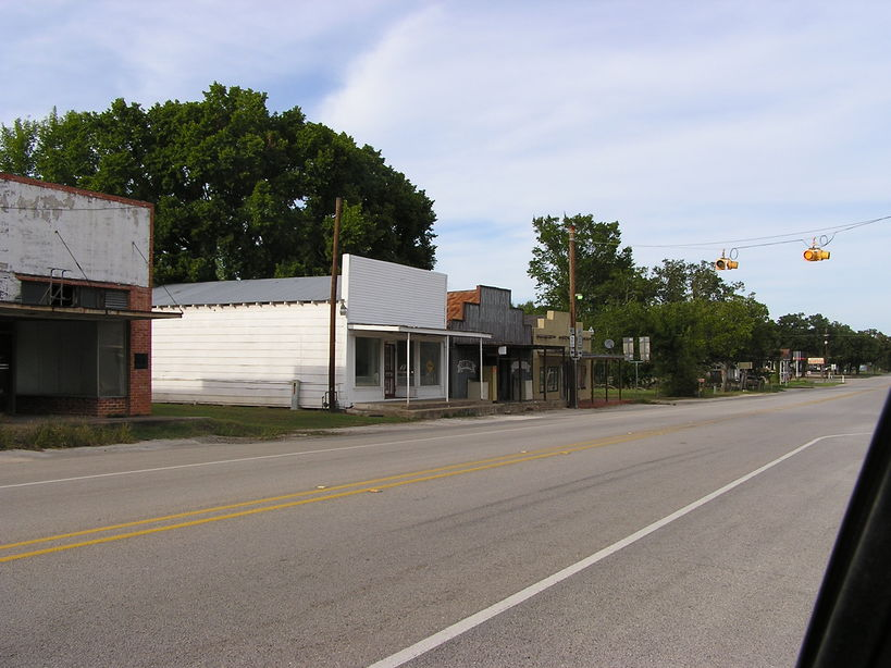 northwest side of La Bahía Road (Texas State Highway 21) at Farm to Market Road 247, downtown Midway, Texas, in 2010